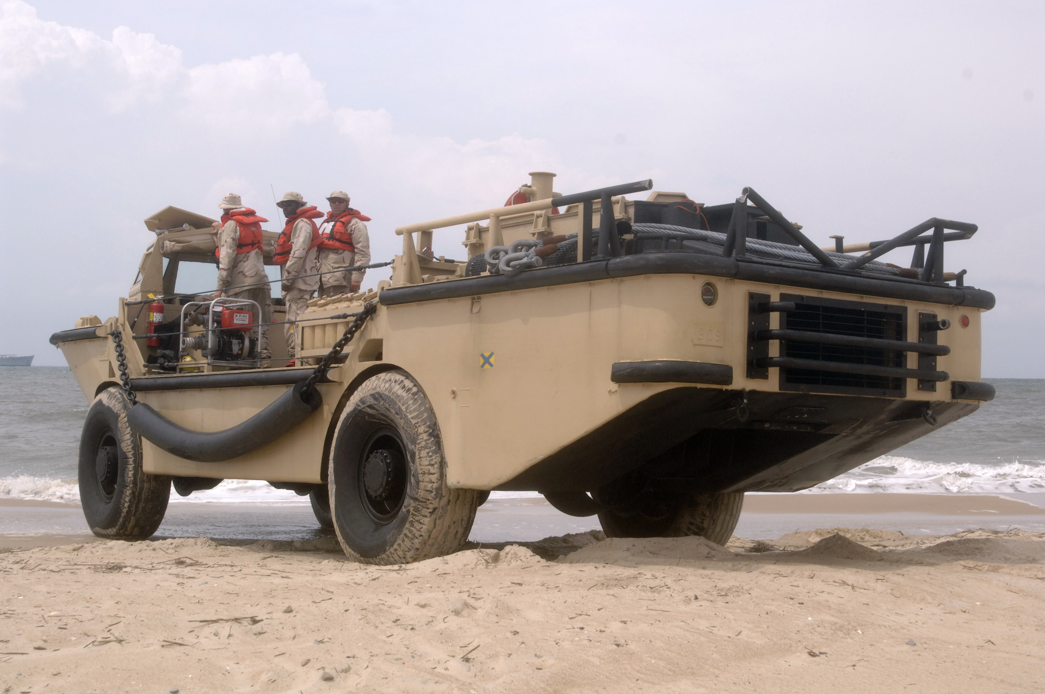 Fort Story, Va. (June 6,2006) - Sailors assigned to Beach Master Unit Two (BMU-2) practice man overboard drills using Landing Auxiliary Rescue Crafts (LARC) during the Naval Expeditionary Combat Command (NECC) DELMAR exercise on and off the coast of Fort Story, Va. DELMAR is organized by the Military Surface Deployment and Distribution Command (SDDC) and will challenge a variety of units to jointly provide humanitarian assistance to an area devastated by a natural disaster. The focus of the exercise for the month of June is based around the Hampton Roads area if it were to be hit by a major hurricane.